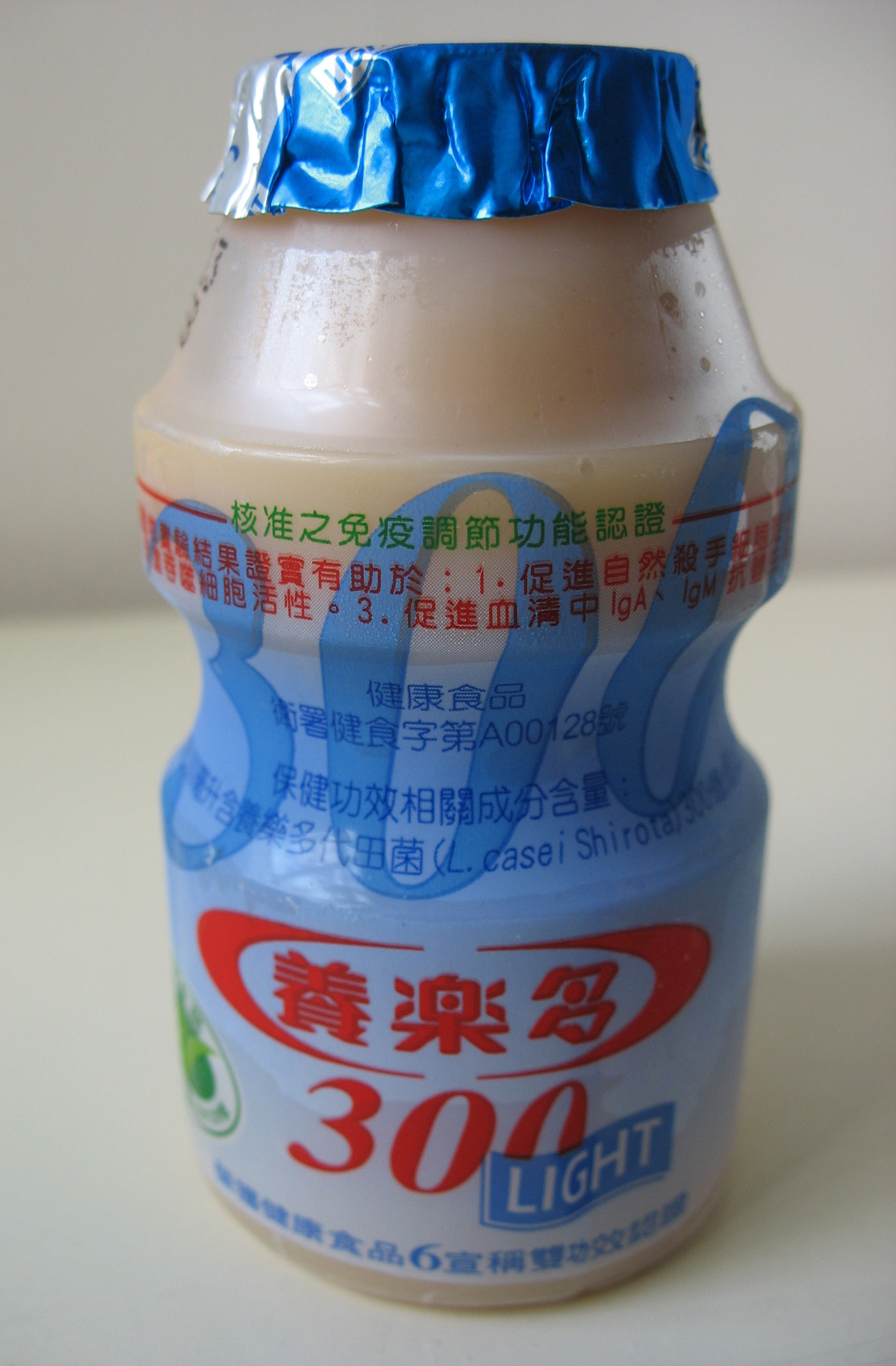 Yakult 300 Light 100ml. Taiwan.